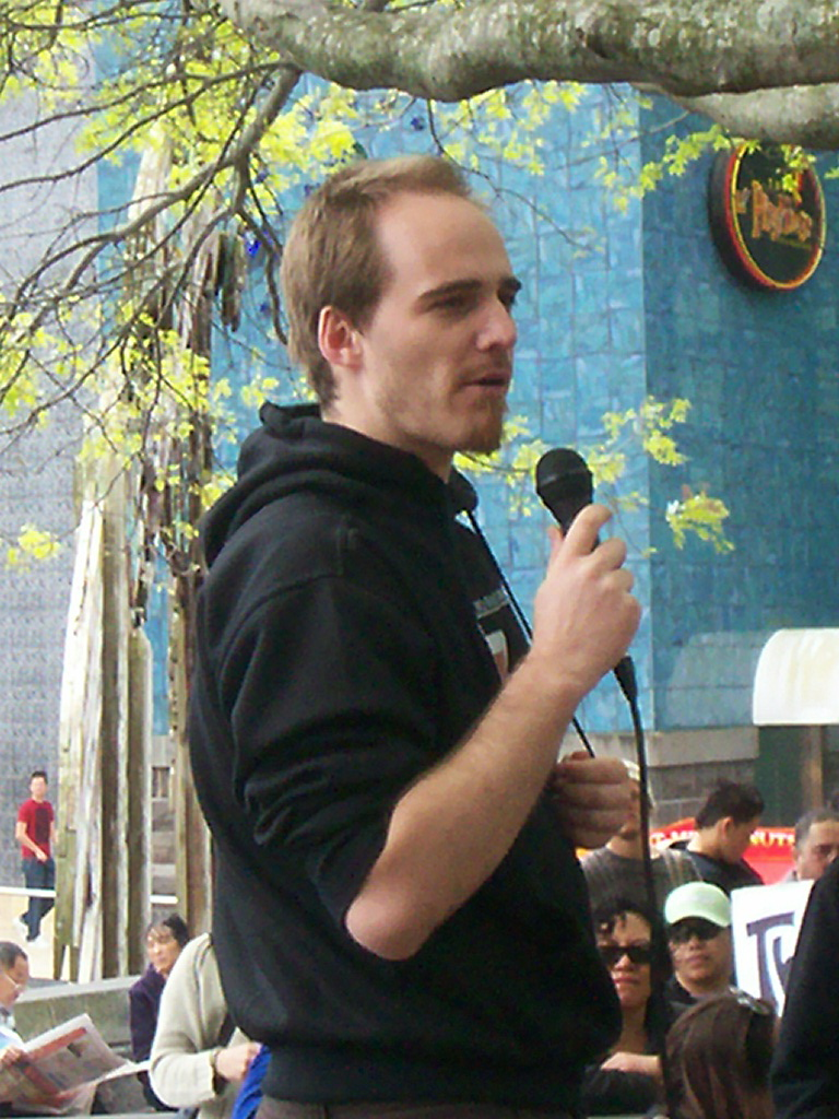 Simon Oosterman speaking at protests against 2007 New Zealand anti-terrorism raids. Photo taken by original uploader.